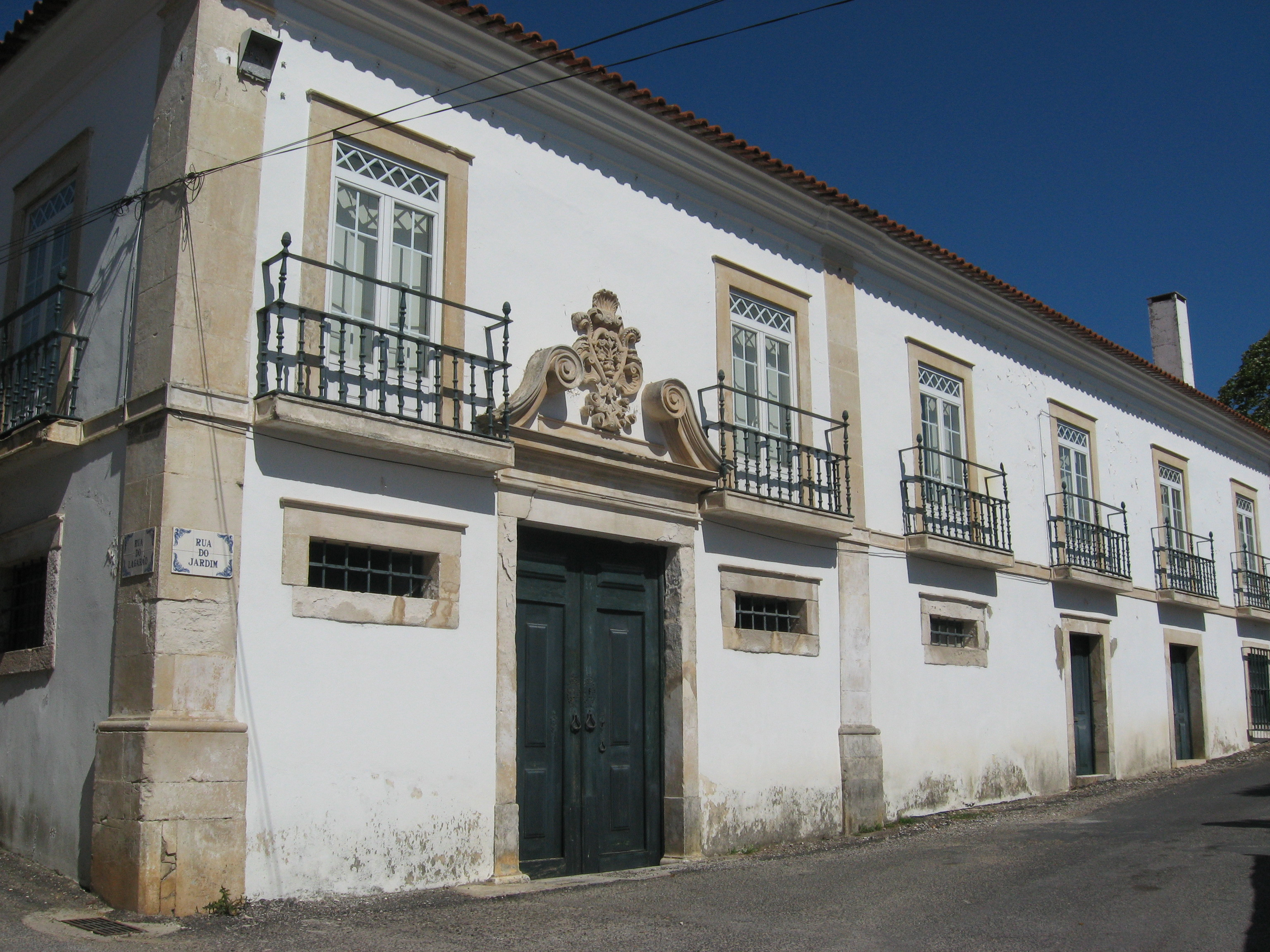 Alcobaça, Portugal, Mosteiro, Coutos de Alcobaça, former county of the Abbey, Santa Catarina one of the 13 cities of the Coutos, Casa Nobre, nobel house, 16th century